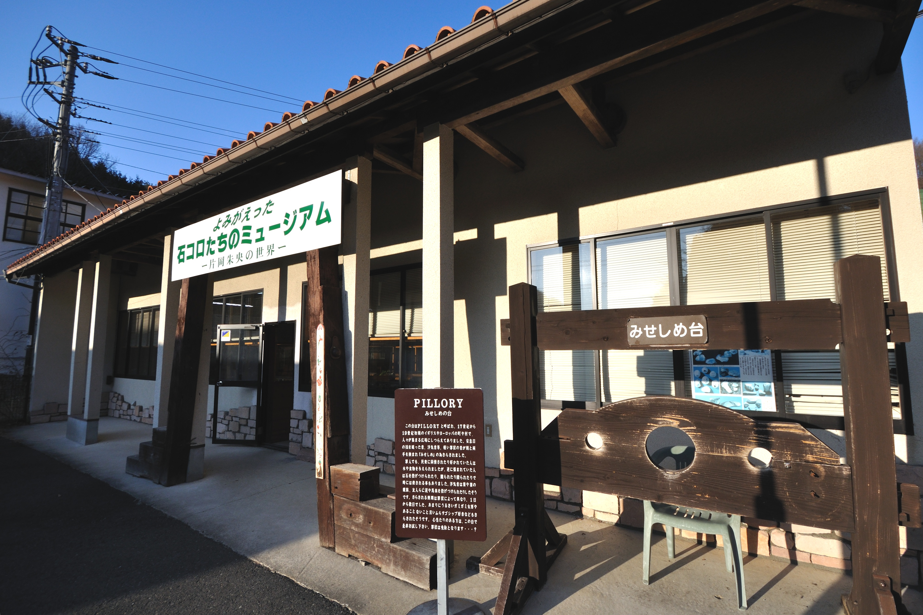 Photograph of Marble Village Lockheart Castle, Stone Museum exterior, it is amusement park in Takayama Village, Gunma Prefecture, this photo taken in December 26, 2009.